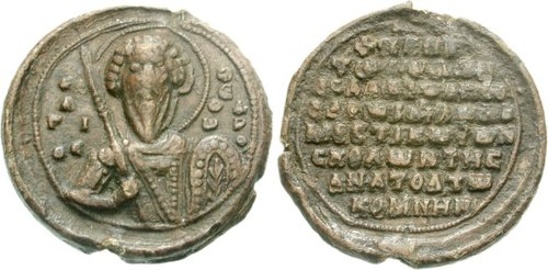 Isaac Comnenus. Protoproedros and megas domestikos of the scholai of Anatolia, before 1081. PB Seal (32mm, 20.92 g, 12h). O/A/GI/OC down left field; Q/E/OD/wR/O]C down right field; facing bust of St. Theodore, wearing military attire, holding spear in right hand and shield in left / + KE R[Q]/ Tw Cw DOVLw/ ICAAKIw A´PRO/EDRw S MAC DO/MECTIKw TwN/ CXOLwN THC/ ANTOL Tw/ KOMNHN. BLS I -; DOCBS -; Seyrig -; Vatican -; Orghidan -; Jordanov -. VF, attractive brown patina. This seal probably belongs to Isaac Comnenos, the brother of Alexius I and general of the East. He played a crucial role in the rebellion against Nicephorus III and Alexius’ accession in 1081. The seal likely dates to before Alexius’ rise to power, when Isaac received the newly created title sebastokrator.